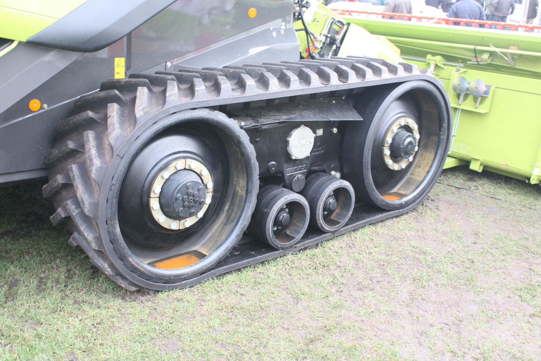 Front track drive unit of a Claas Lexion 750 combine harvester at LAMMA 2011, Newark, Nottinghamshire, England